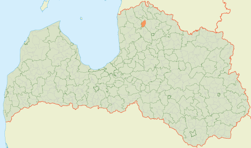 Location of Matīši Parish in Latvia